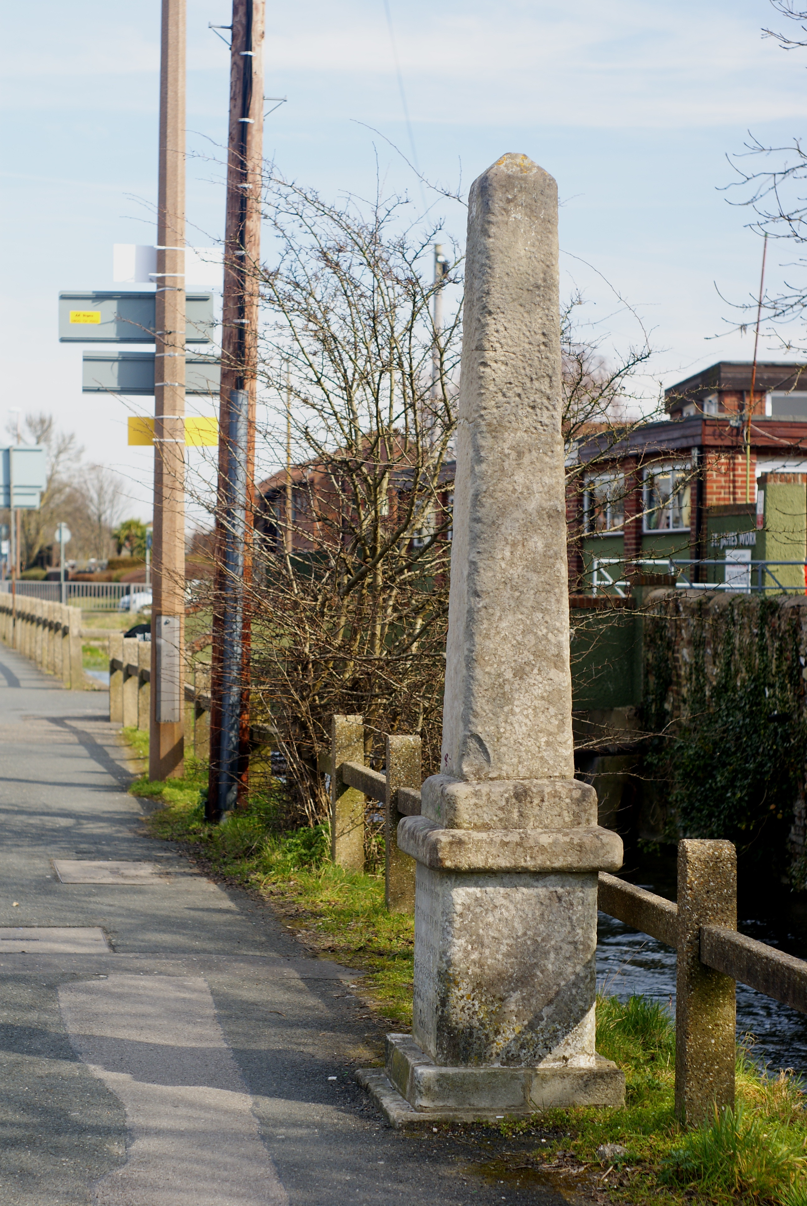 St.James' Obelisk, St.Pancras, Chichester, Sussex Located at the junction of St.Pancras and Spitalfield Lane. The obelisk bears the following inscription: "Erected in the mayoralty of Charles Duke of Richmond Lennox Aubigny MDCCXLV".